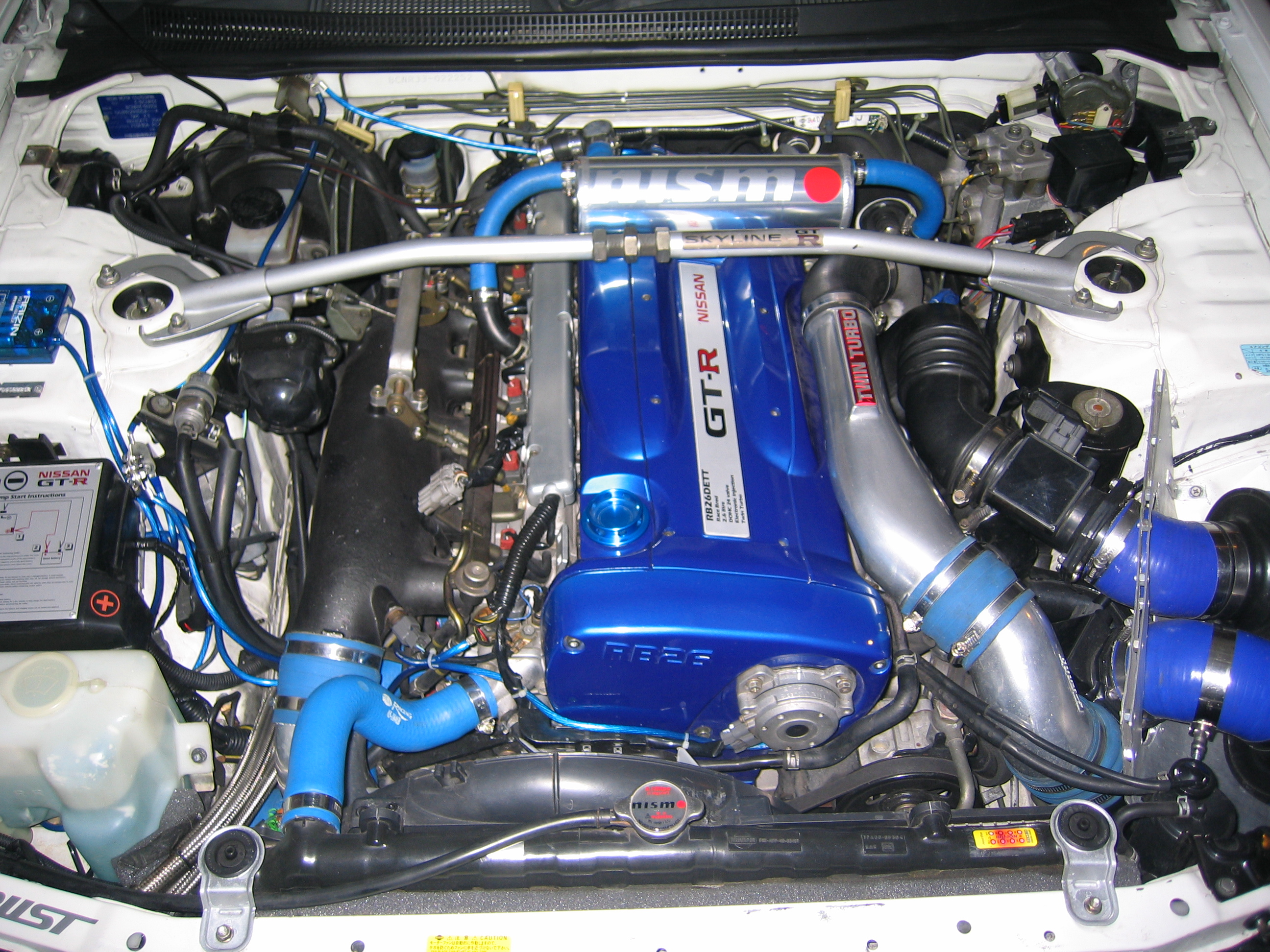 Lightly modified RB26DETT in a R33 Skyline GT-R.